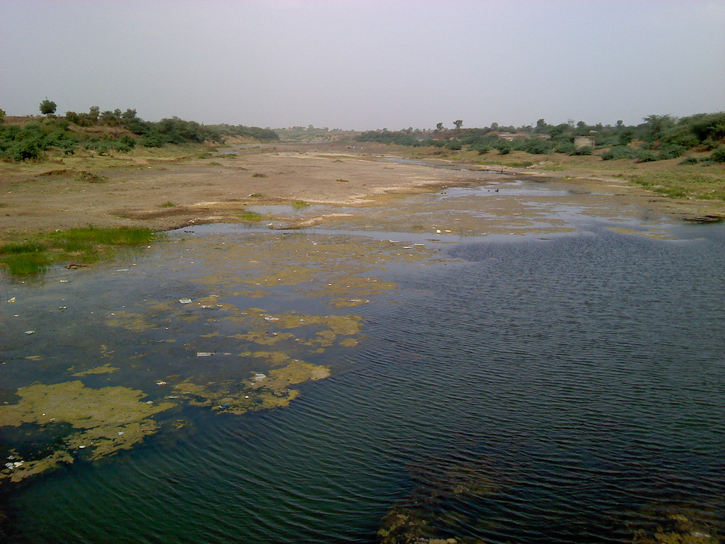 Purna River at Manegaon, Maharashtra. The picture is taken in May 2011 summer showing only little water in the river.